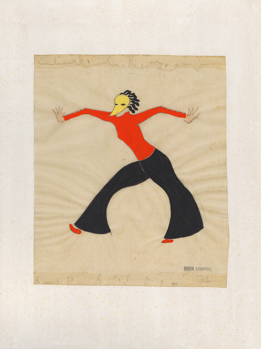 Koen Limperg. Danskostuum voor Chaja Goldstein 1933. Collectie NAi, LIMP 53.2 Als architect van Het Nieuwe Bouwen was Limperg een analytisch onderzoeker van maatschappelijke misstanden. Decors en kostuums ontwierp hij veelal voor op Amerikaanse leest geschoeide, van glamour doortrokken tragi-komische stukken. Koen Limperg. Dance costume for Chaja Goldstein, 1933. NAI Collection, LIMP 53.2 As a Nieuwe Bouwen architect, Limperg was an analytical student of social ills. He designed sets and costumes mostly for tragicomic, glamour-drenched US-style plays.